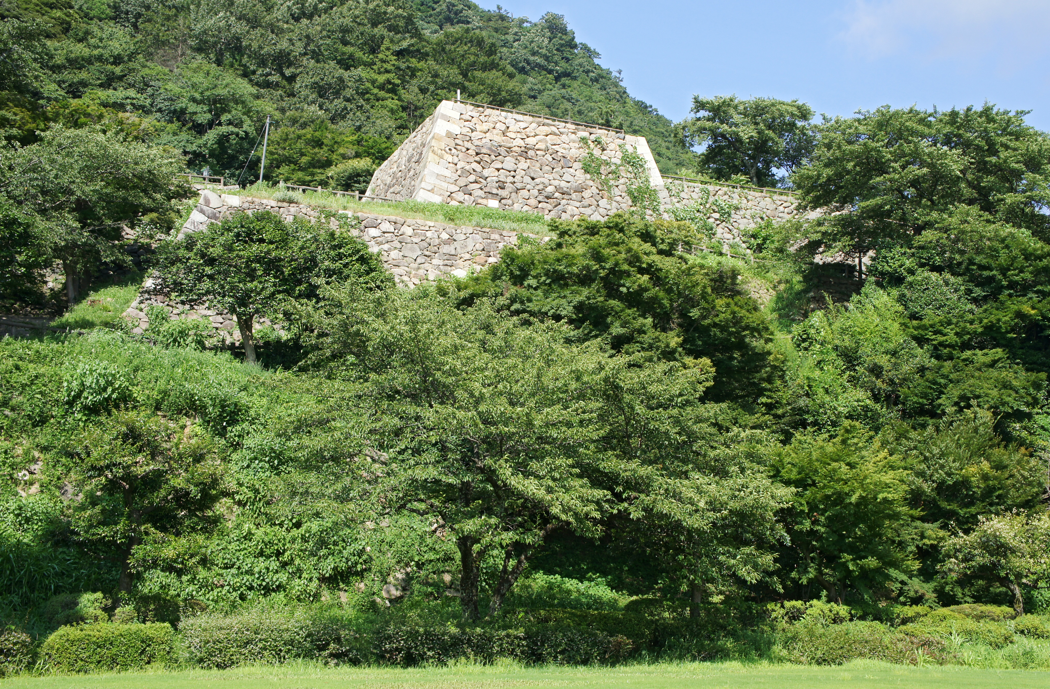 Tottori Castle in Tottori, Tottori prefecture, Japan